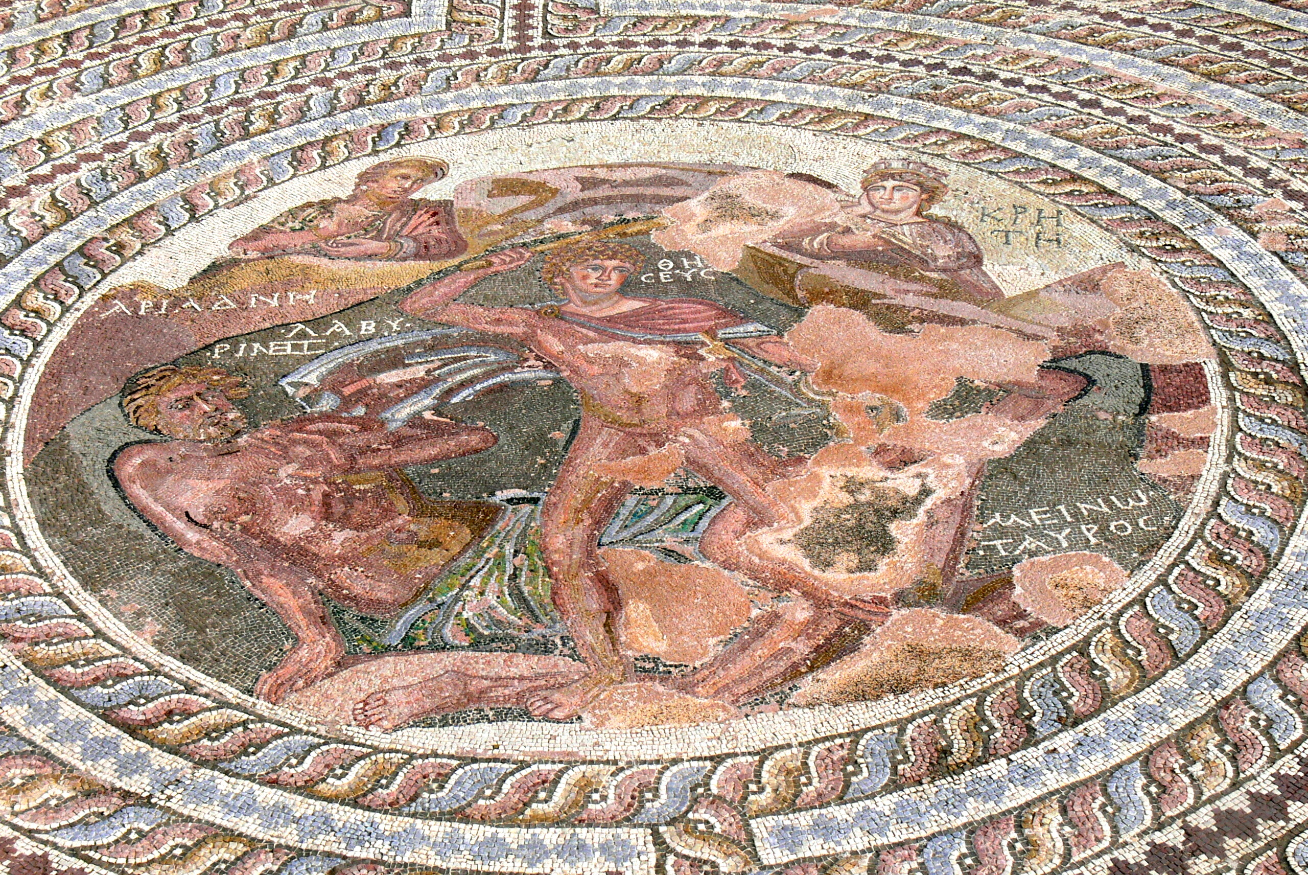 Paphos Archaeological Park. House of Theseus: Mosaic of Theseus killing the minotaur.